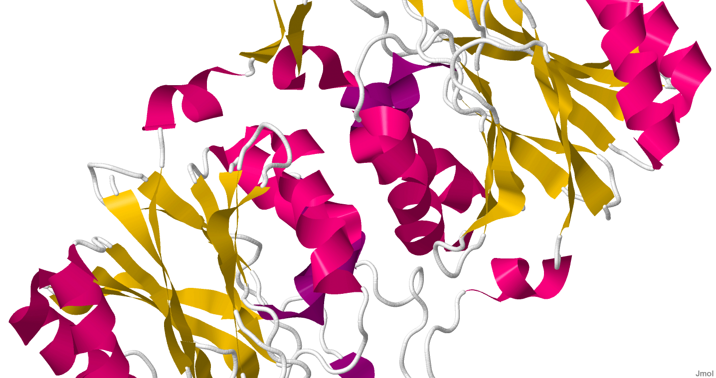 Structure of Nitrilase